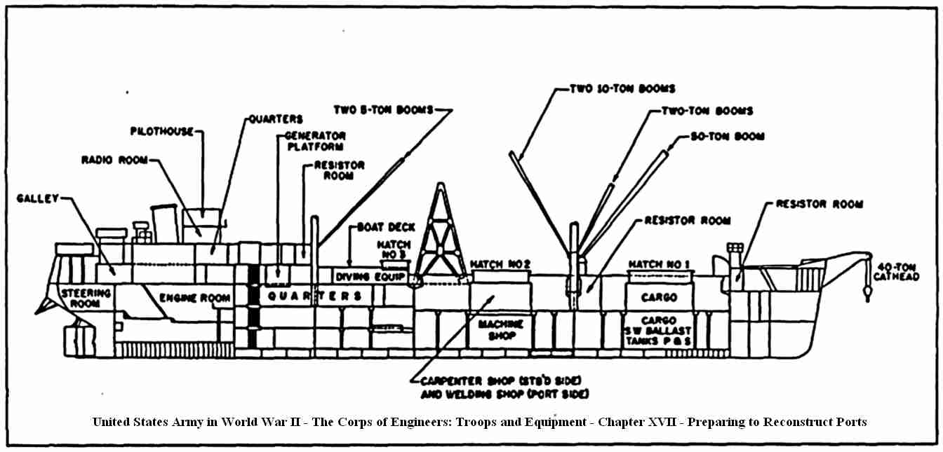 Engineer Port Repair Ship Diagram/Schematic.